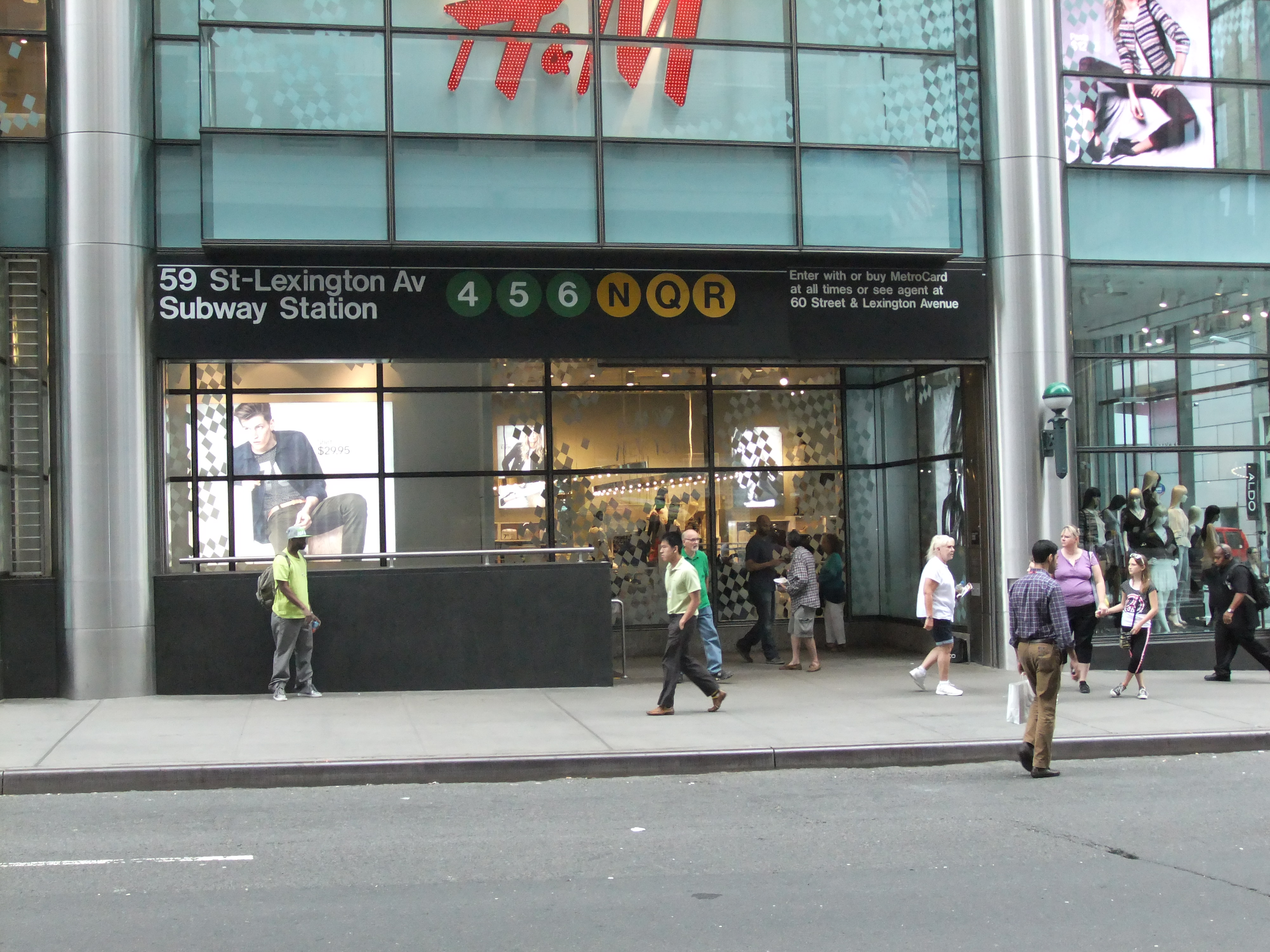 Subway entrance under H&M at Lexington Avenue & 59th Street.